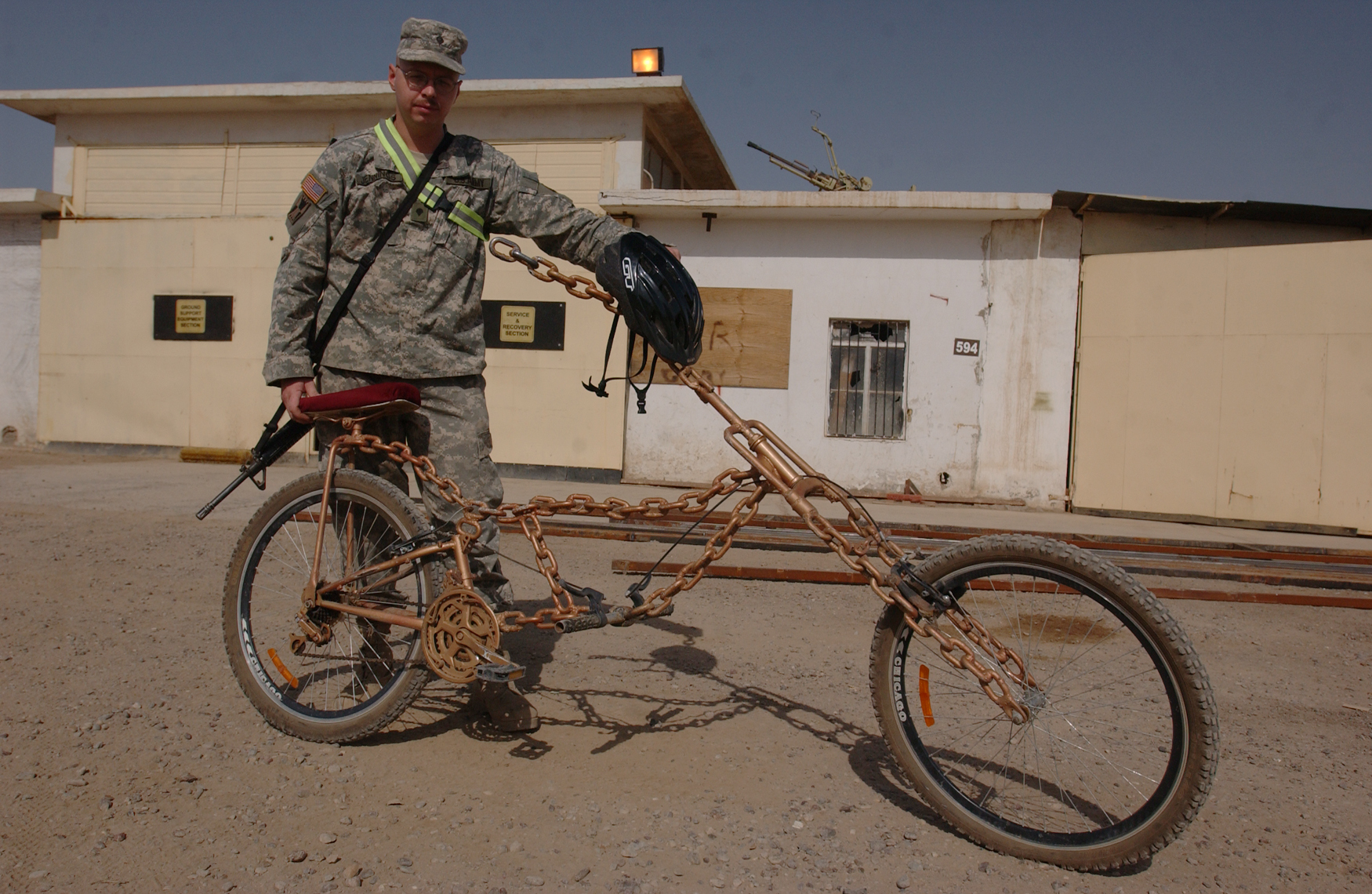 Spc. Keith Jennings, welder with Company B, 4th Support Battalion, 1st Brigade Combat Team, 4th Infantry Division, sports a chopper-style bicycle he made with scraps he found around Camp Taji, Iraq.